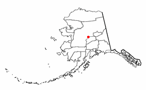 Adapted from Wikipedia's AK borough maps by Seth Ilys.